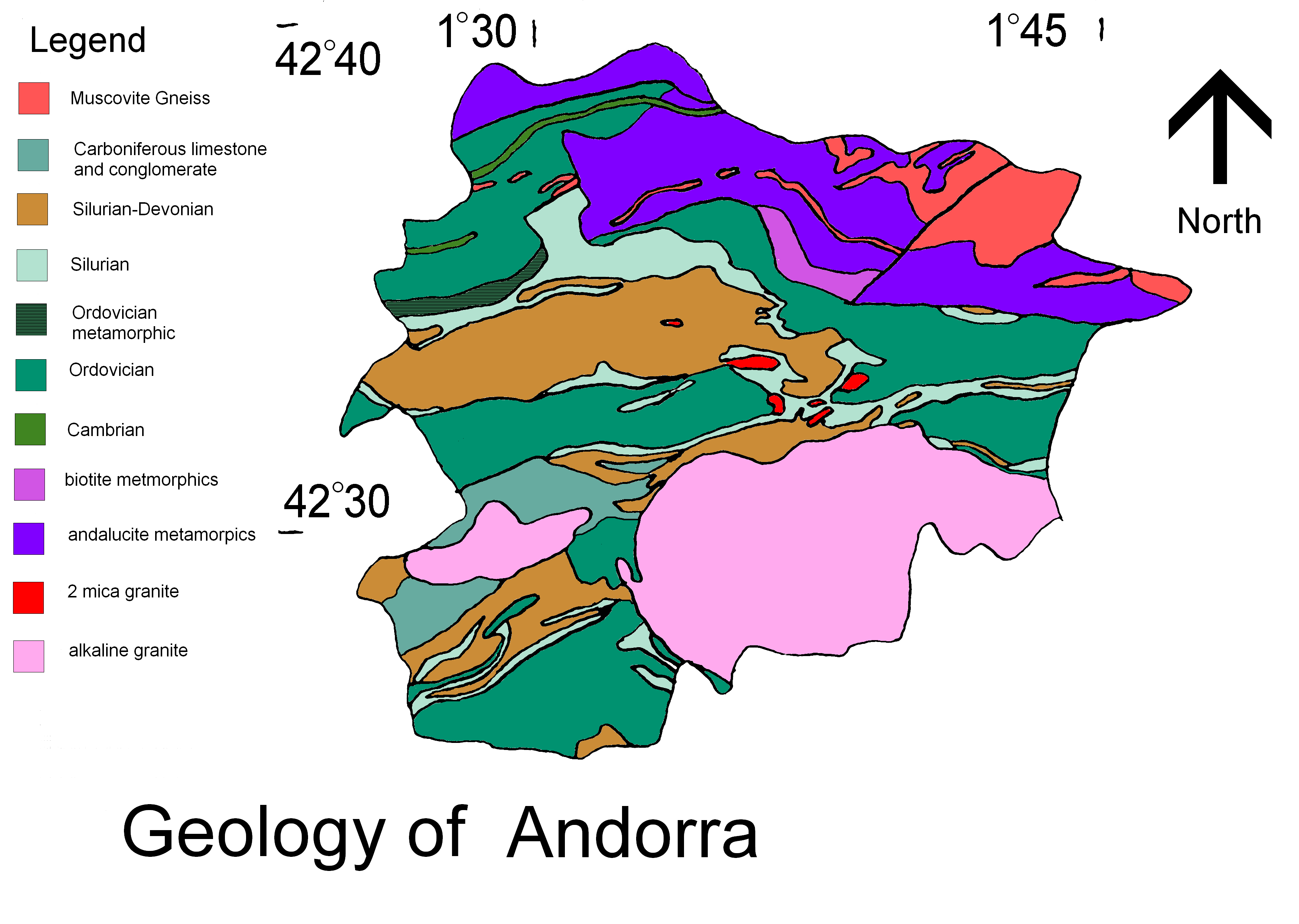 Geological map of Andorra based on 2002 geological map of Spain